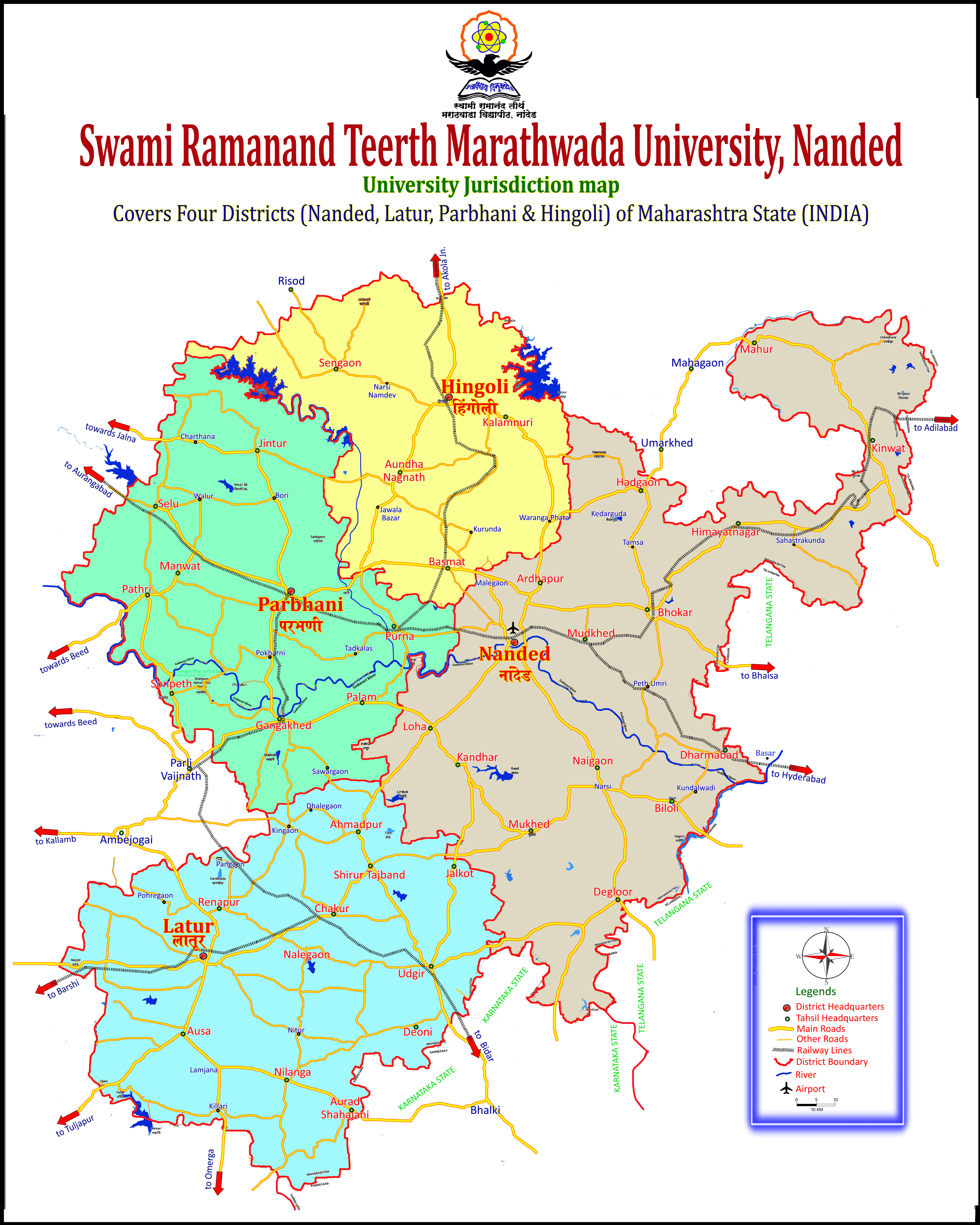 SRTM University Jurisdiction Map. It covers four districts (Nanded, Latur, Parbhani & Hingoli) of Maharashtra State.